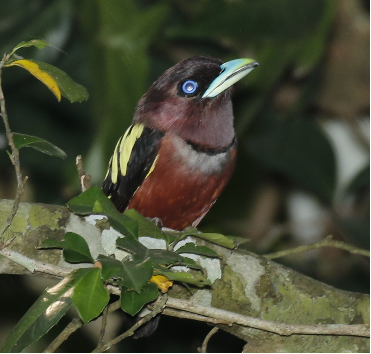 Kaeng Krachen Nat’l Park - Thailand